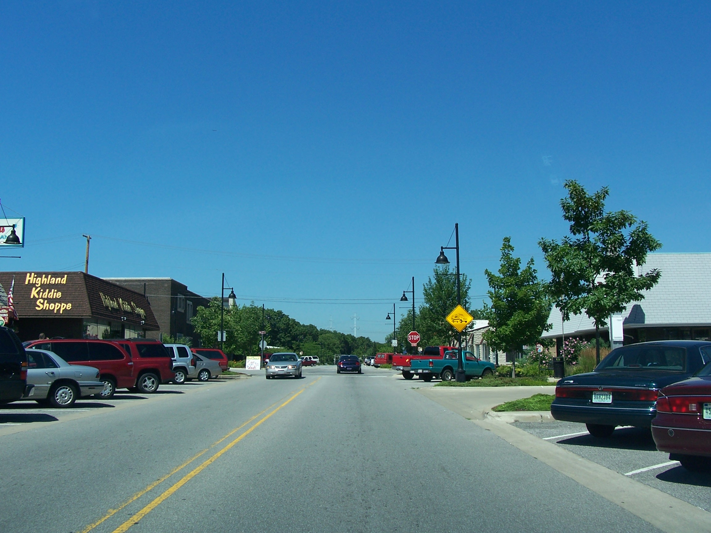 Shops near 2nd St. and Highway Av. in Highland (Lake County), Indiana